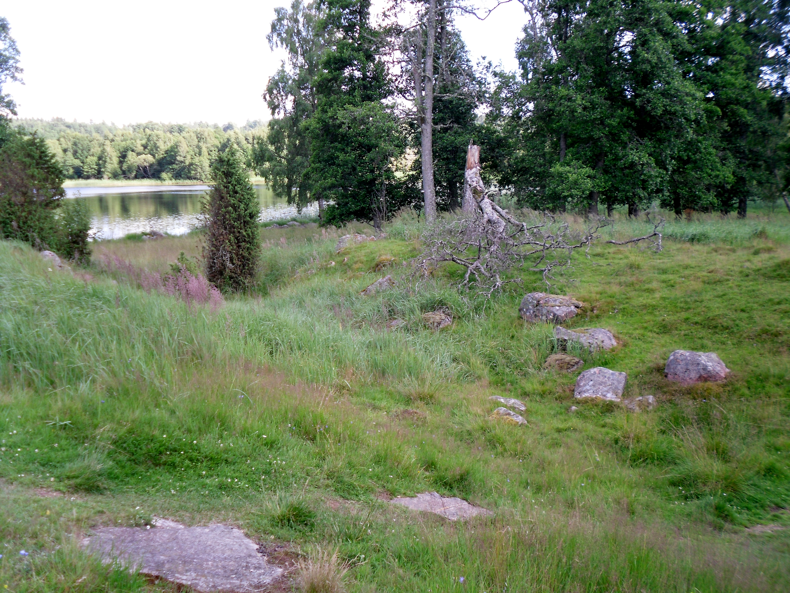 Vädersholm castle, Västergötland, Sweden